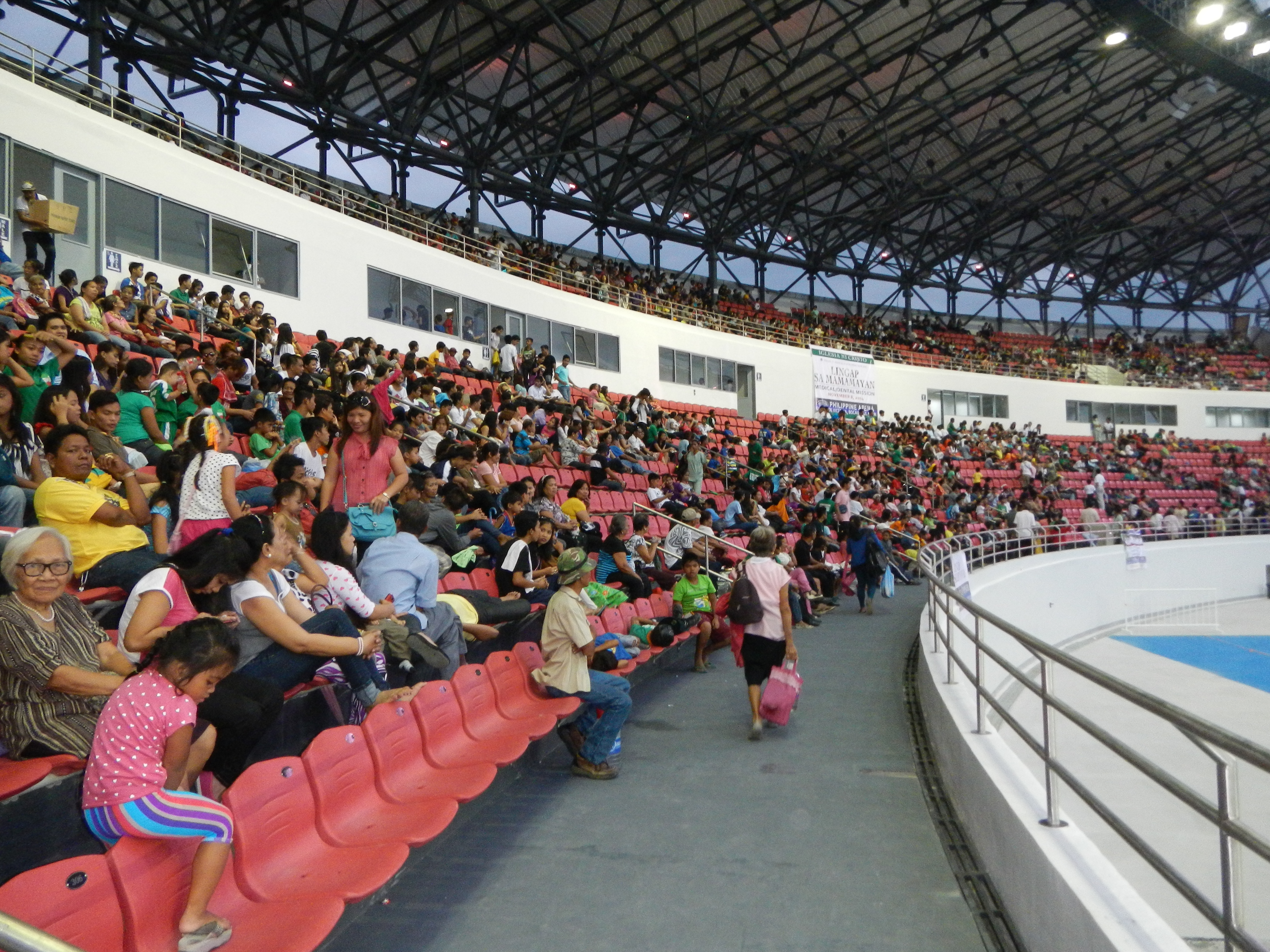 Lingap Pamamahayag sa Mamamayan Medical, Dental Mission of November 8, 2014 - New Era University Buses Philippine Arena beside the Philippine Sports Stadium of the, and located in and part of the - Ciudad de Victoria, Iglesia Ni Cristo - 140-hectare tourism enterprise zone in Barangays Duhat, Igulot, Bolacan of Bocaue, Bulacan and Tabing Bakod or Santo Tomas and Mahabang Parang of Santa Maria, Bulacan - including therein being constructed are New Era University, New Era University Bocaue Campus & Eraño G. Manalo (EGM) Medical Center, an 11-storey modern hospital with 1000-bed capacity.